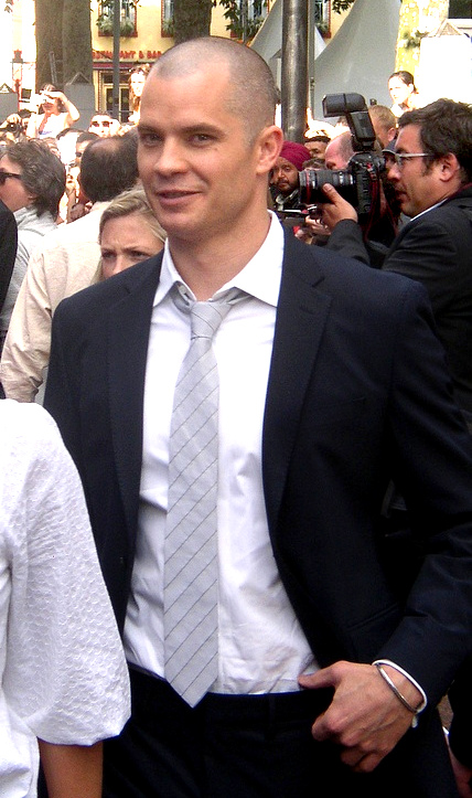 Timothy Olyphant